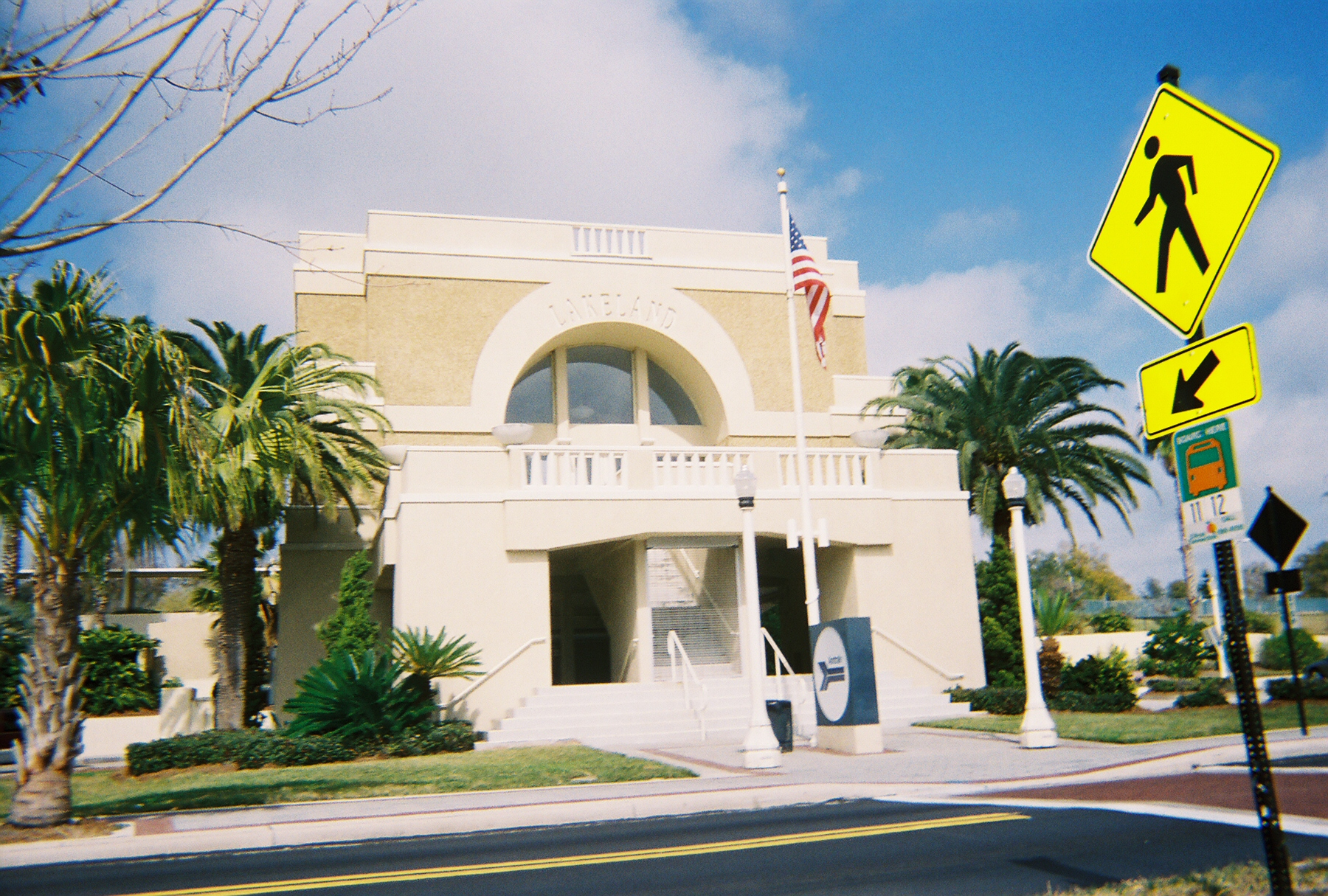 Street-side image of Lakeland (Amtrak station) on Lake Mirror Drive in Lakeland, Florida